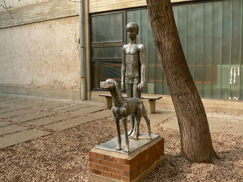 Györgyi Szathmáry sculptors from Hungary